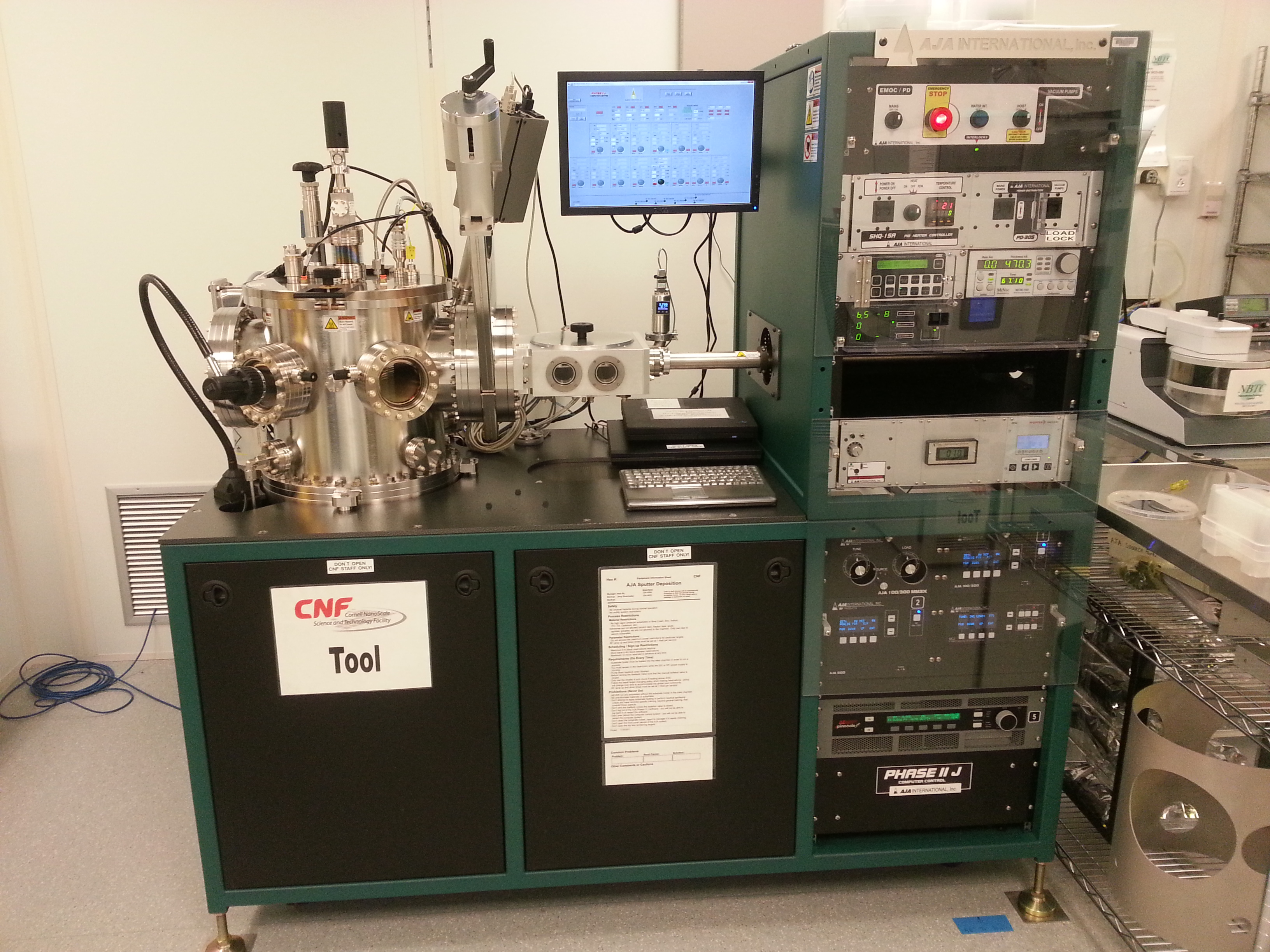 A sputtering system at Cornell NanoScale Science and Technology Facility, built by AJA international